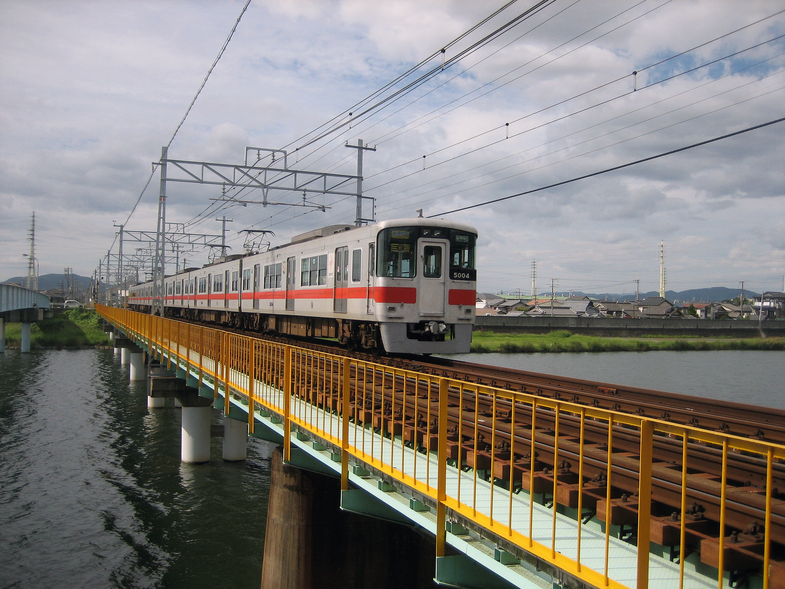 The Type 5000Series which Sanyo Electric Railway Co.Ltd. owns.